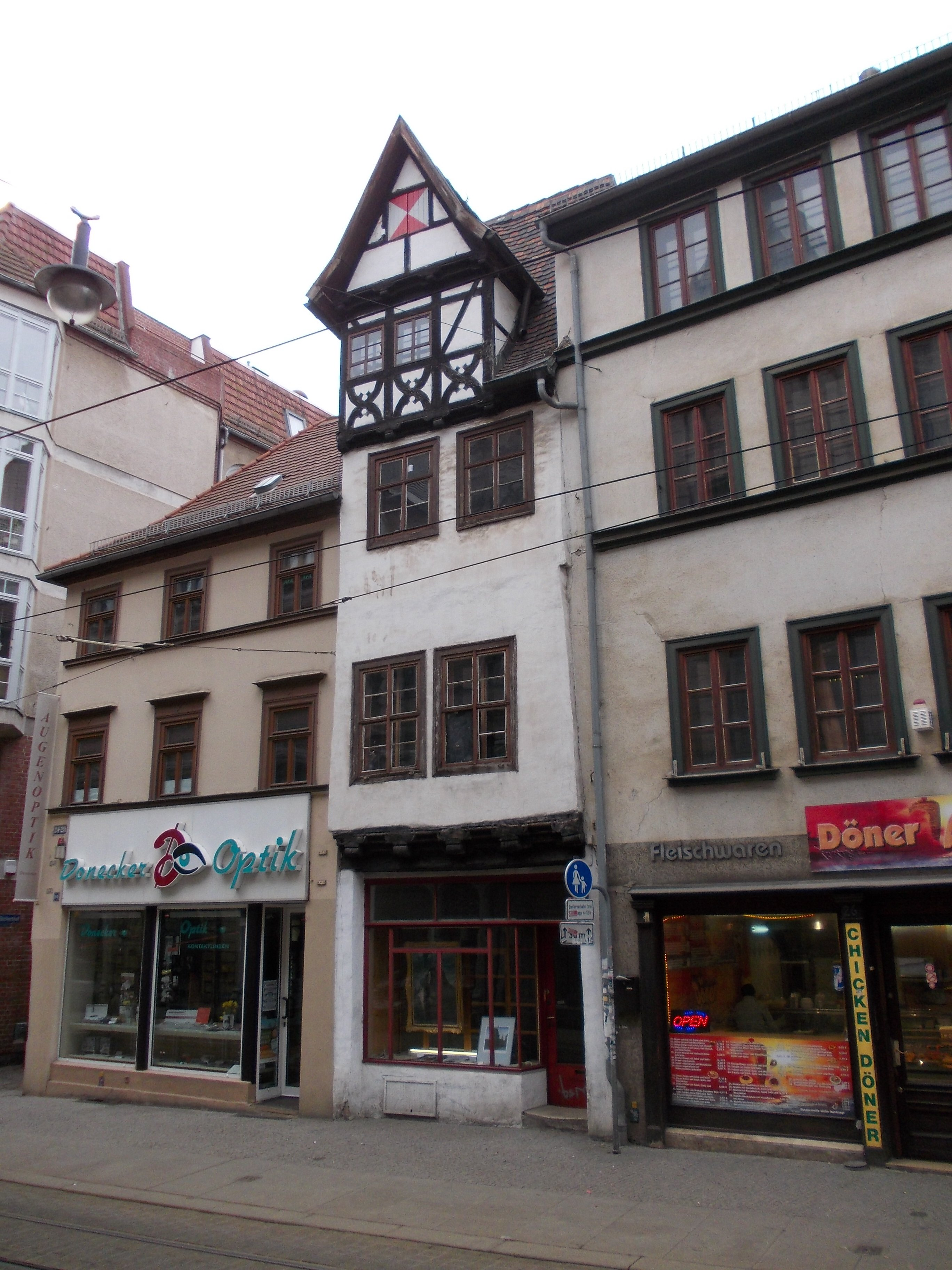 No. 25 at Schmeerstrasse in Halle (Saale)